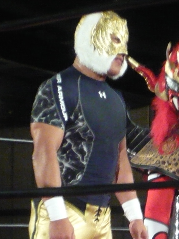 Tiger Mask IV on the NJPW Invasion Tour 2011 on May 14, 2011. Cropped from original.